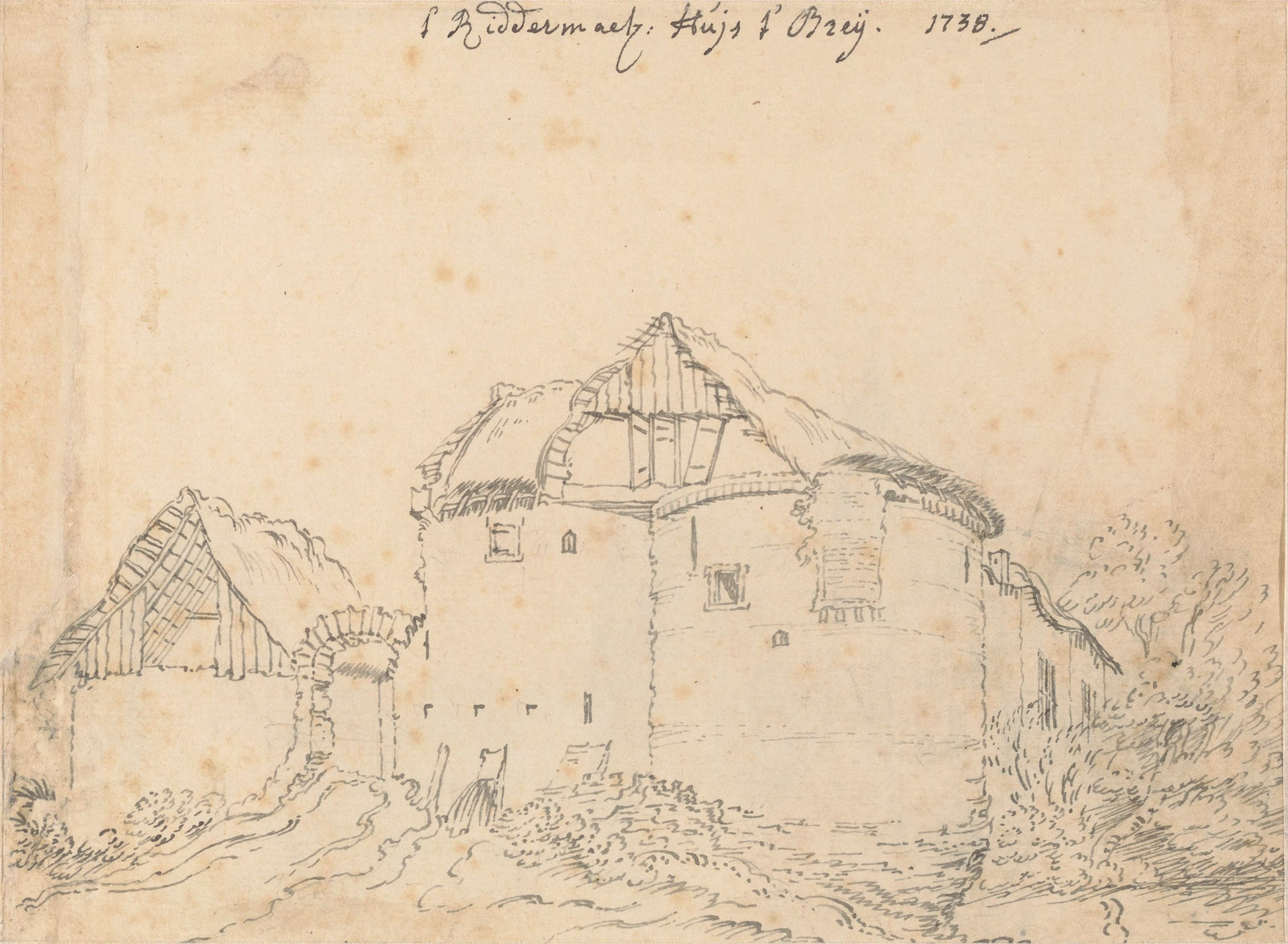 Huis Bree in Maasbree near Venlo in Dutch province of Limburg. Reverse of a two-sided drawing. For the front, see File:Het Riddermatig Huys te Wissen Rijksmuseum Amsterdam RP-T-1953-254(R).jpg.